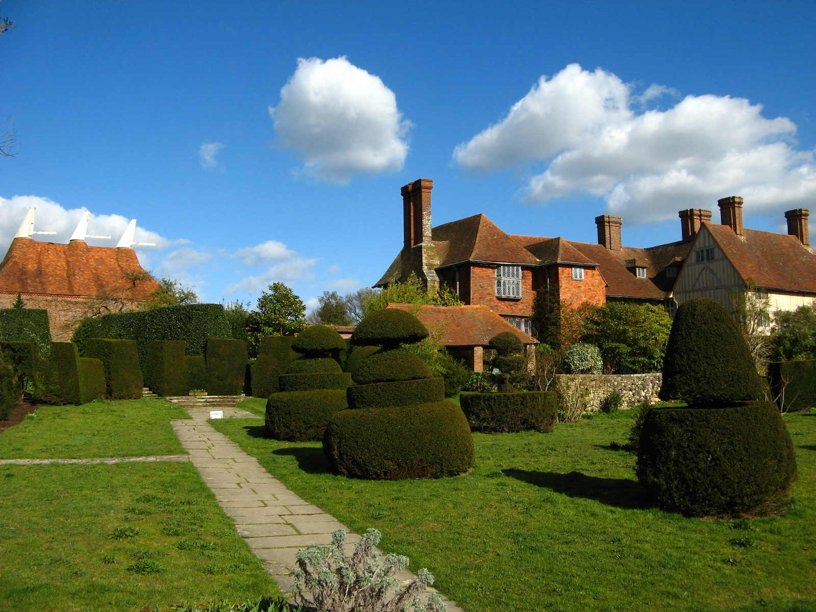 Great Dixter